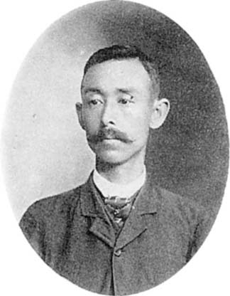 M. Yokoyama, Professor of Geology, Palaeontology and Mineralogy.